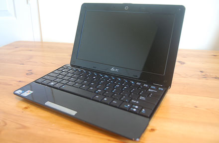 Asus EEE 1008HA